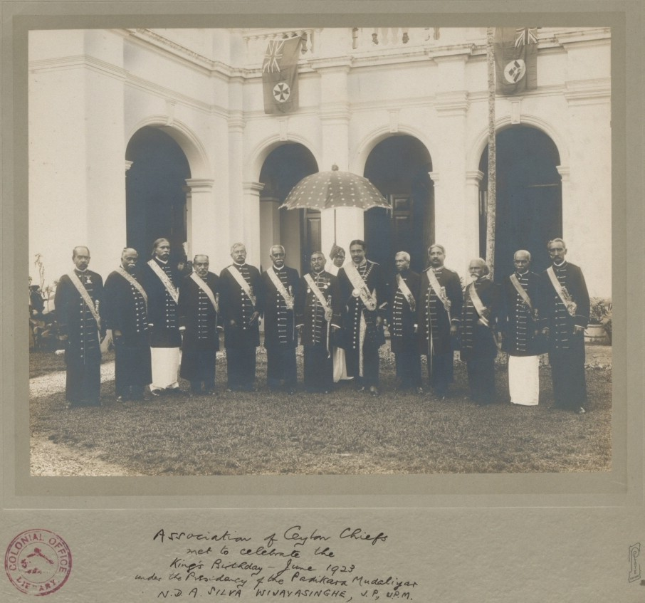 Association of Ceylon Chiefs met to celebrate the King's birthday - June 1923 under the presidency of the Padikara Mudali Nanayakkara Rajawasala Appuhamilage Don Arthur de Silva Wijesingha Siriwardana, J.P, U.P.M.